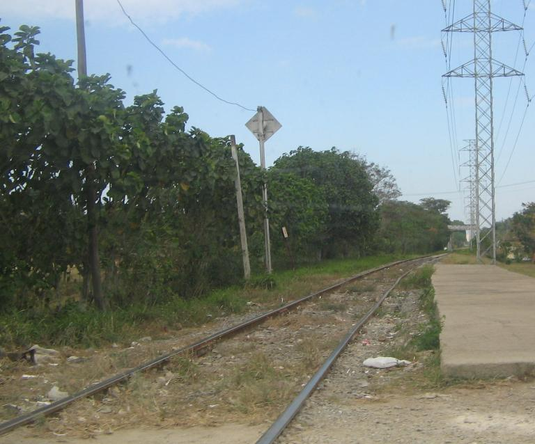 The train station of "Habana Entronque Cujae", part of Havana Suburban Railway. Note-1: "Cujae" (or CUJAE) refers to the Polytechnic José Antonio Echeverría. Note-2: not to be confused with "Habana Cujae", a nearby station located on the double tracked Havana-Guanajay-Artemisa/Mariel line (opened in 2014).